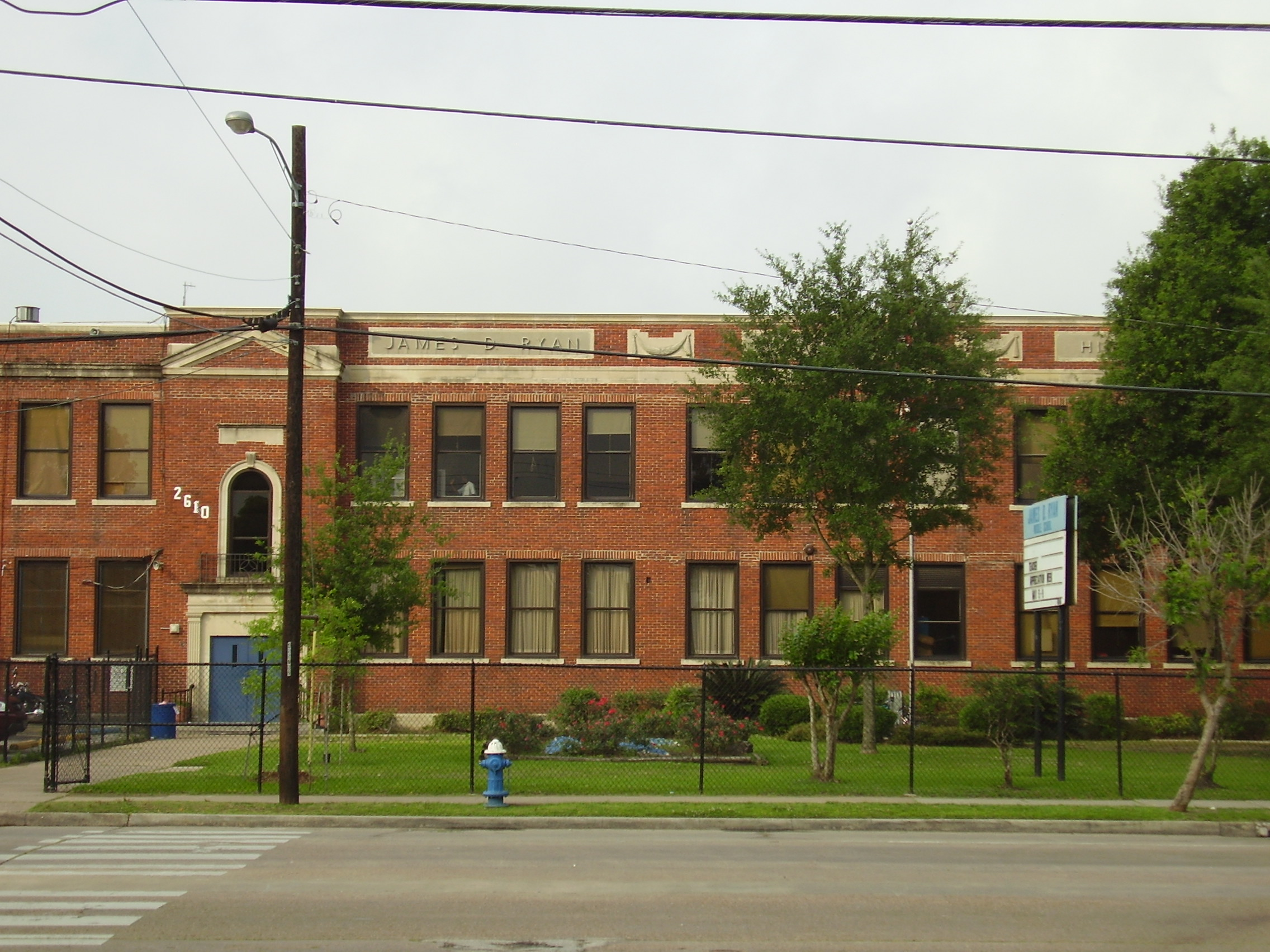 James D. Ryan Middle School - Formerly Jack Yates High School